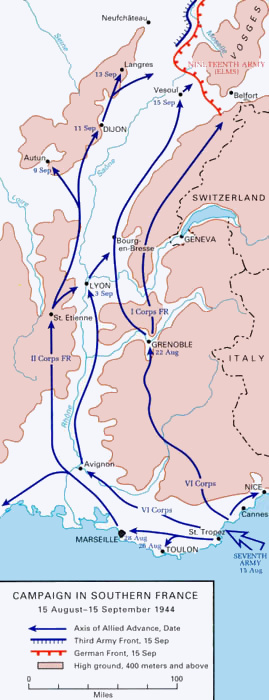 Work of U.S. Government agency.